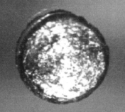 A disc of californium metal (249Cf, 10 mg). The source implies that the disc has a diameter about twice the thickness of a typical pin, or on the order of 1 mm.